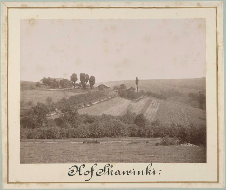 Skawinki village